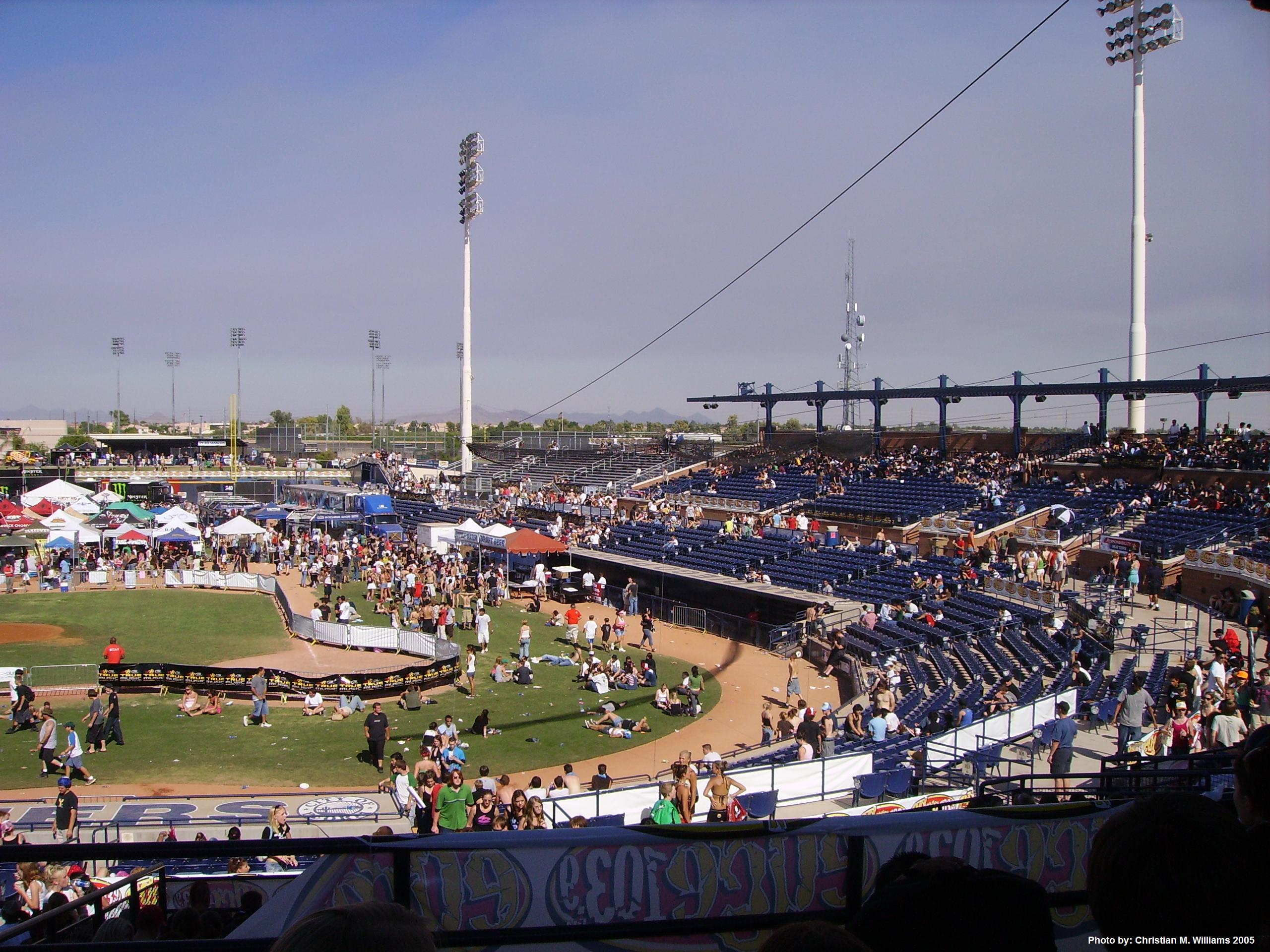 Peoria Sports Complex taken by Christian Williams during Van's Warped Tour 2005